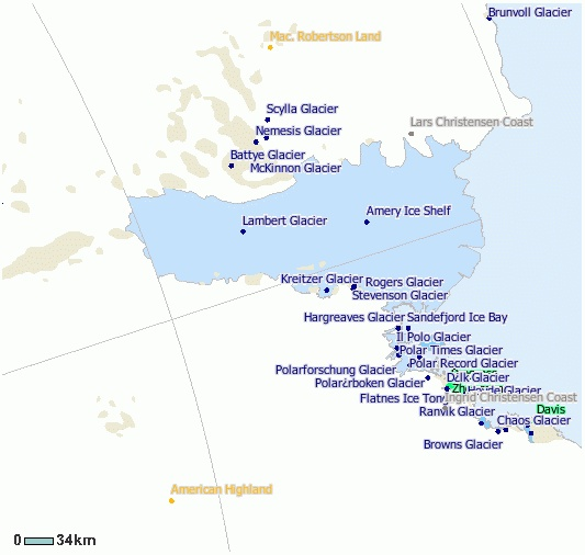 NASA Landsat map of the region around the Lambert glacier in Antarctica